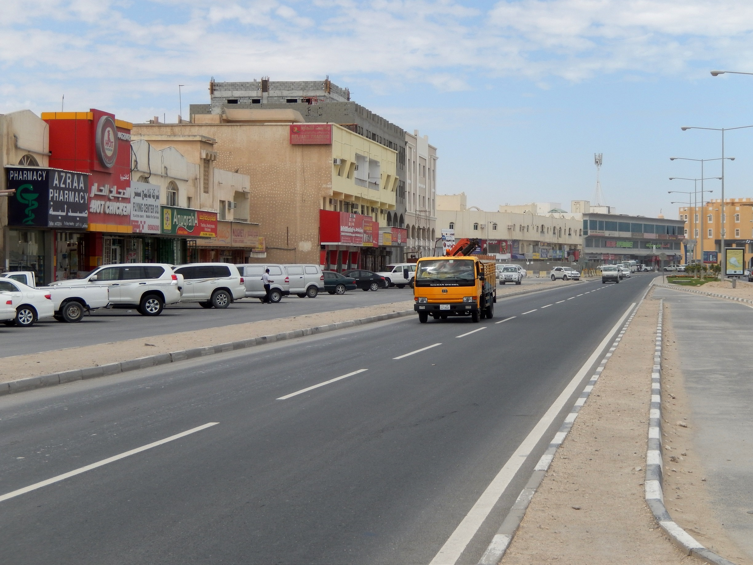 A main road lined with shops in Al Khor, Qatar. ( calls this road Al Dhakira Road, but other names for this road may be found elsewhere)